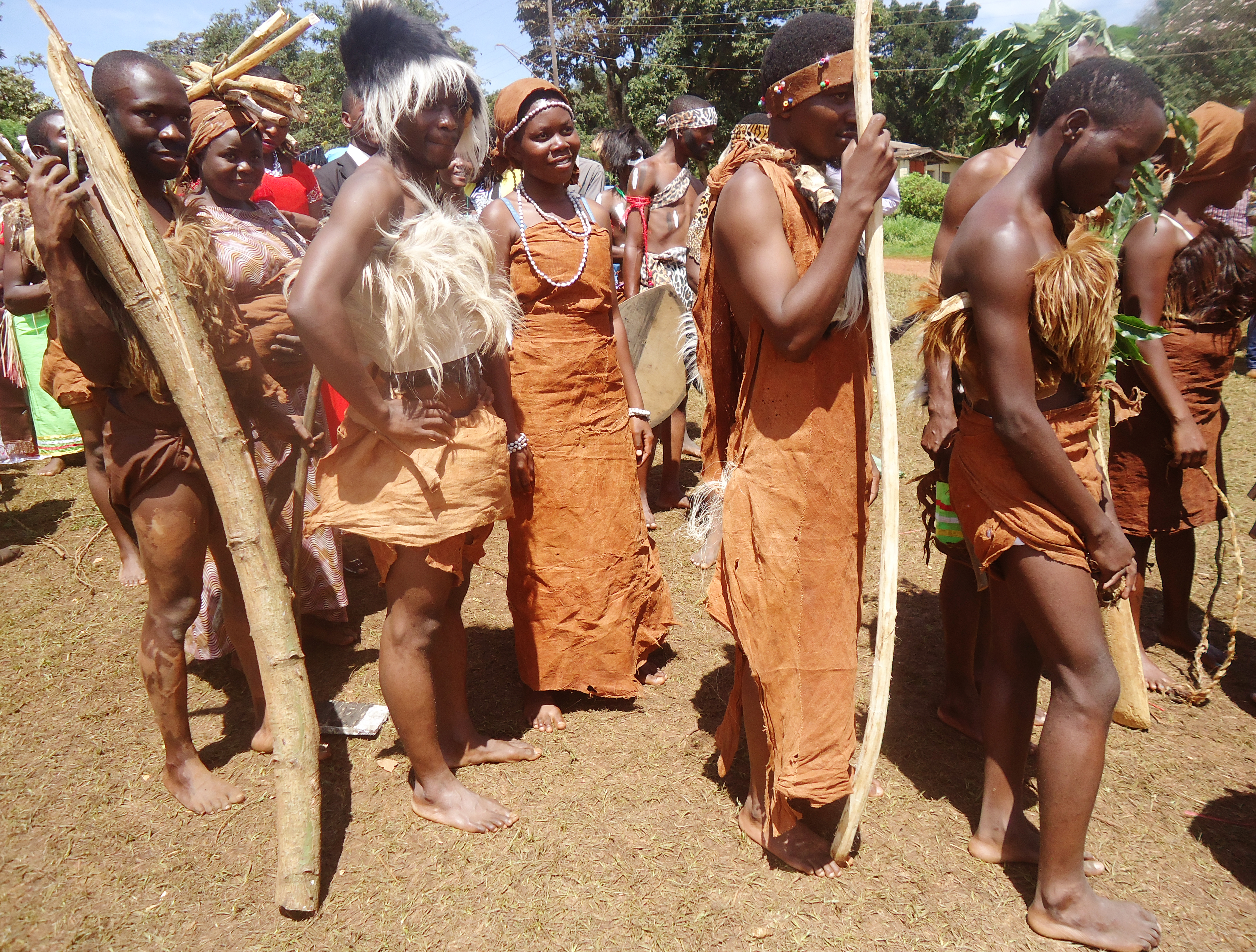 Men and women from Rwenzururu represent their culture This is an image of Cultural Fashion or Adornment from Uganda